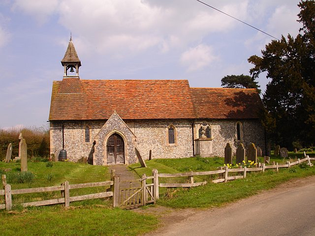 St Laurence, Leaveland Built in 1222, this charming little church is in an isolated position beside Leaveland Court Farm. Unusually in this day and age a notice on the porch door proclaims "This church is always open".